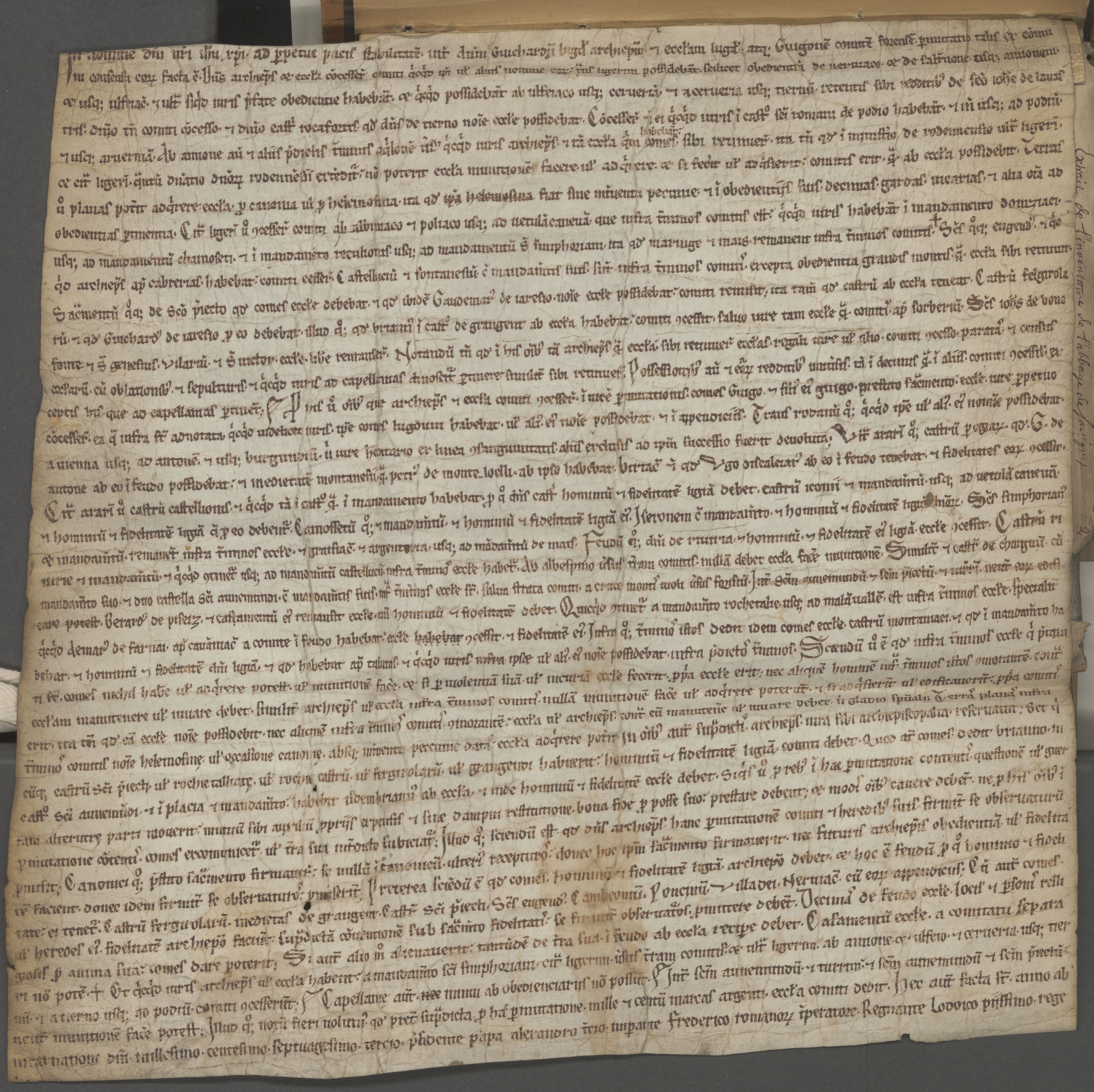 Exchange letter between the cathedral chapter of Lyon and the Forez count, front, 1173.